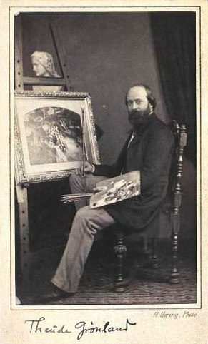 Theude Grønland (1817-1876), Danish painter